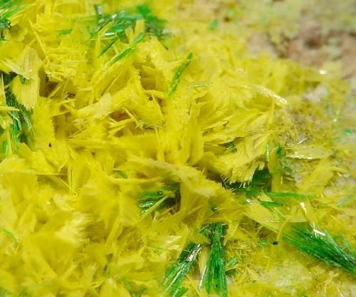 Guilleminite, Malachite Locality: Musonoi Mine, Kolwezi, Western area, Katanga Copper Crescent, Katanga (Shaba), Democratic Republic of Congo (Zaïre) (Locality at ) Size: 4.3 x 4.2 x 3.2 cm. An exceptionally rich specimen featuring lemon-yellow, sub-mm crystals of the rare species Guilleminite on malachite. TYPE LOCALITY.